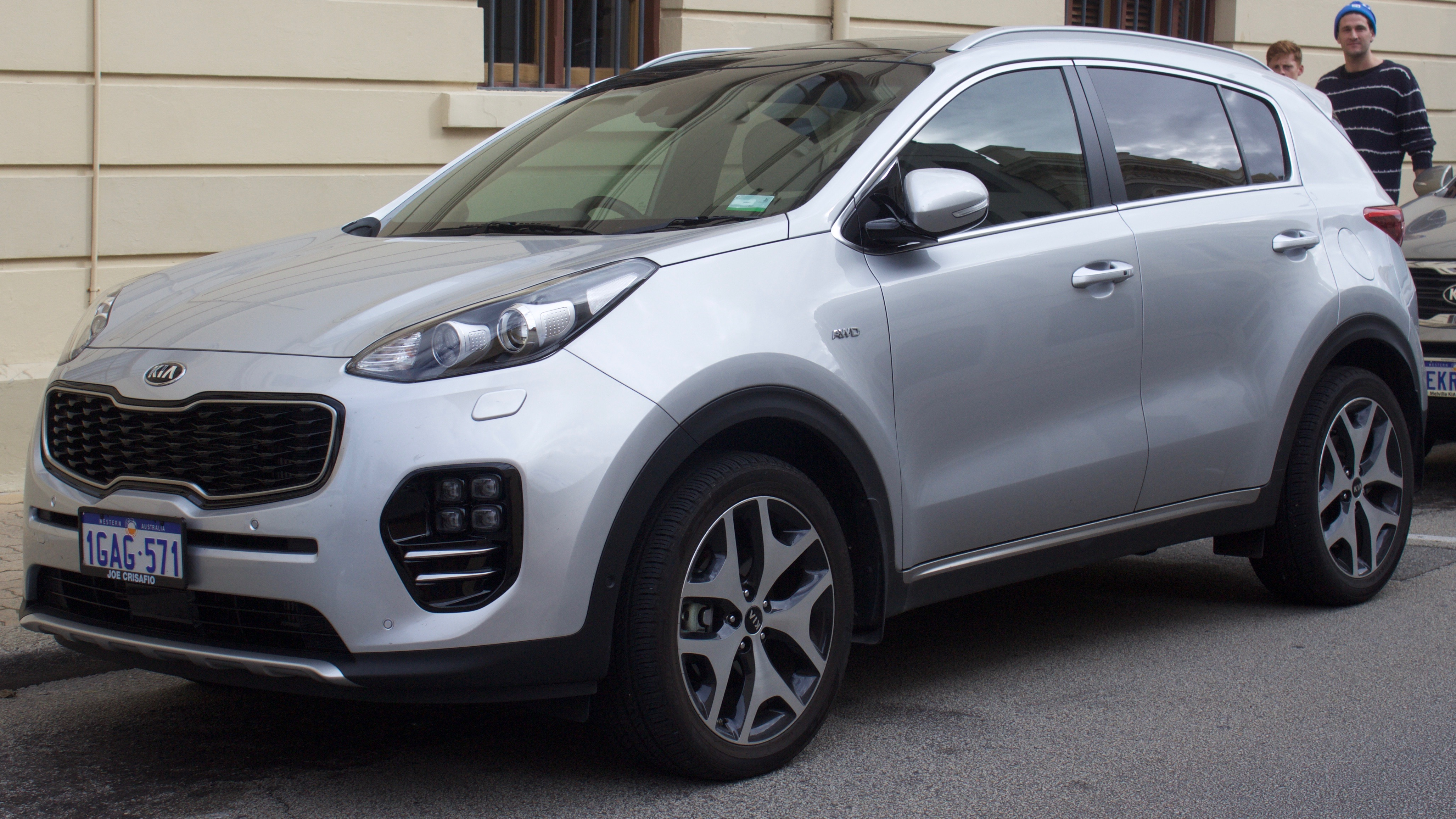 2016 Kia Sportage (QL MY17) Platinum wagon. Photographed in Fremantle, Western Australia, Australia.